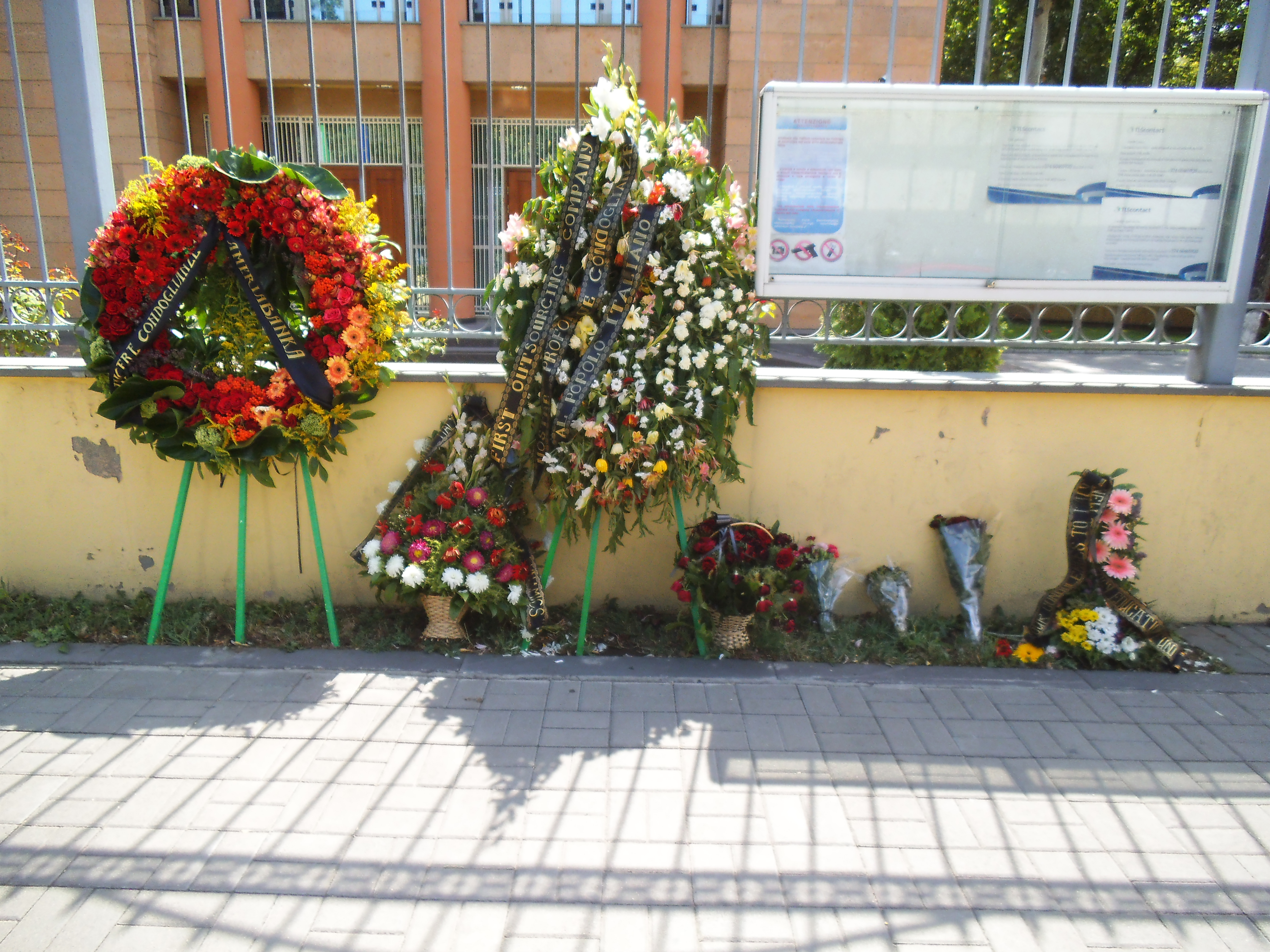 Flowers in front of the Italian embassy in Yerevan, Armenia on the 26th of August 2016 in commemoration of the Accumoli earthquake.